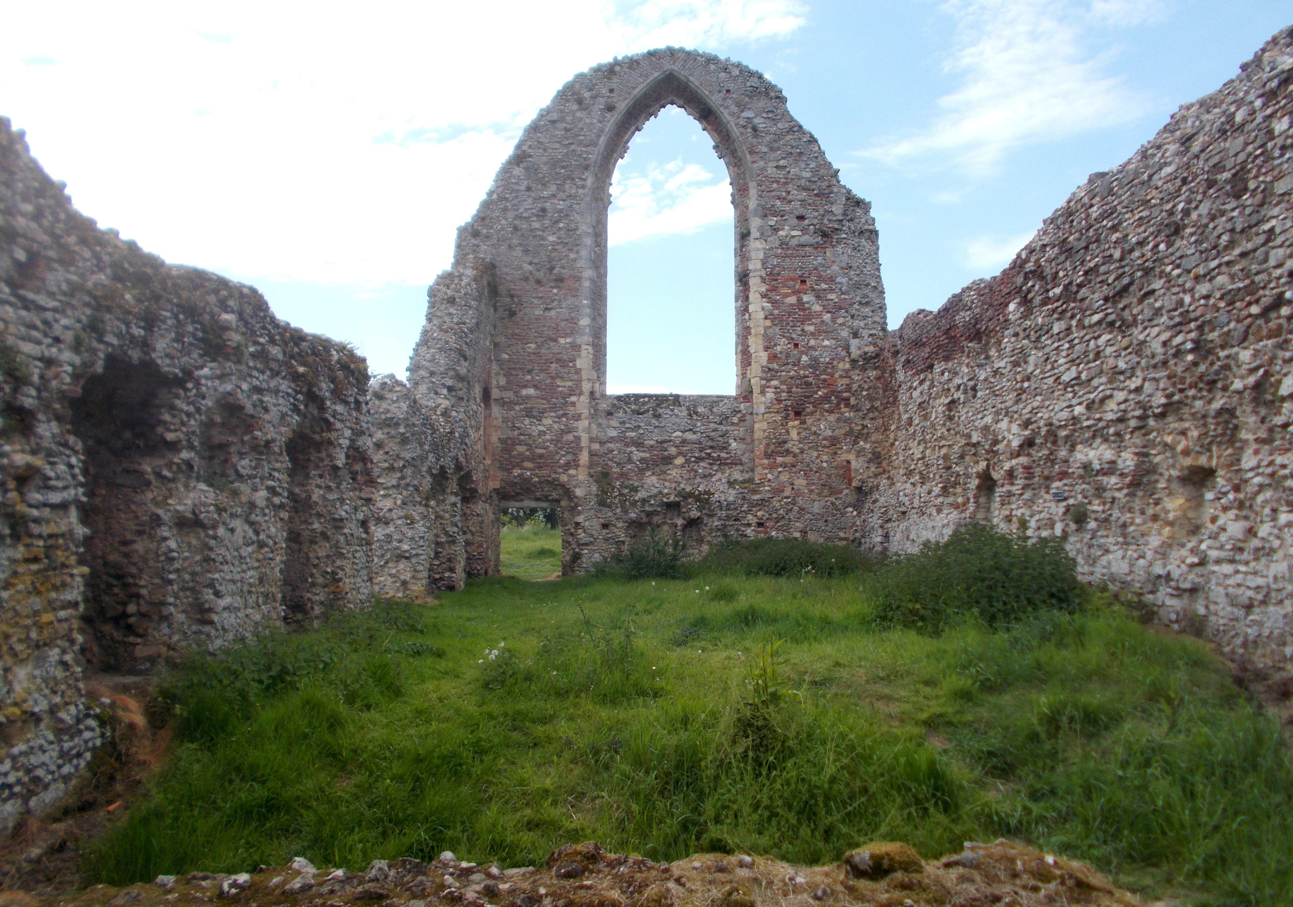 The Refectory of Leiston Abbey, Suffolk, looking west